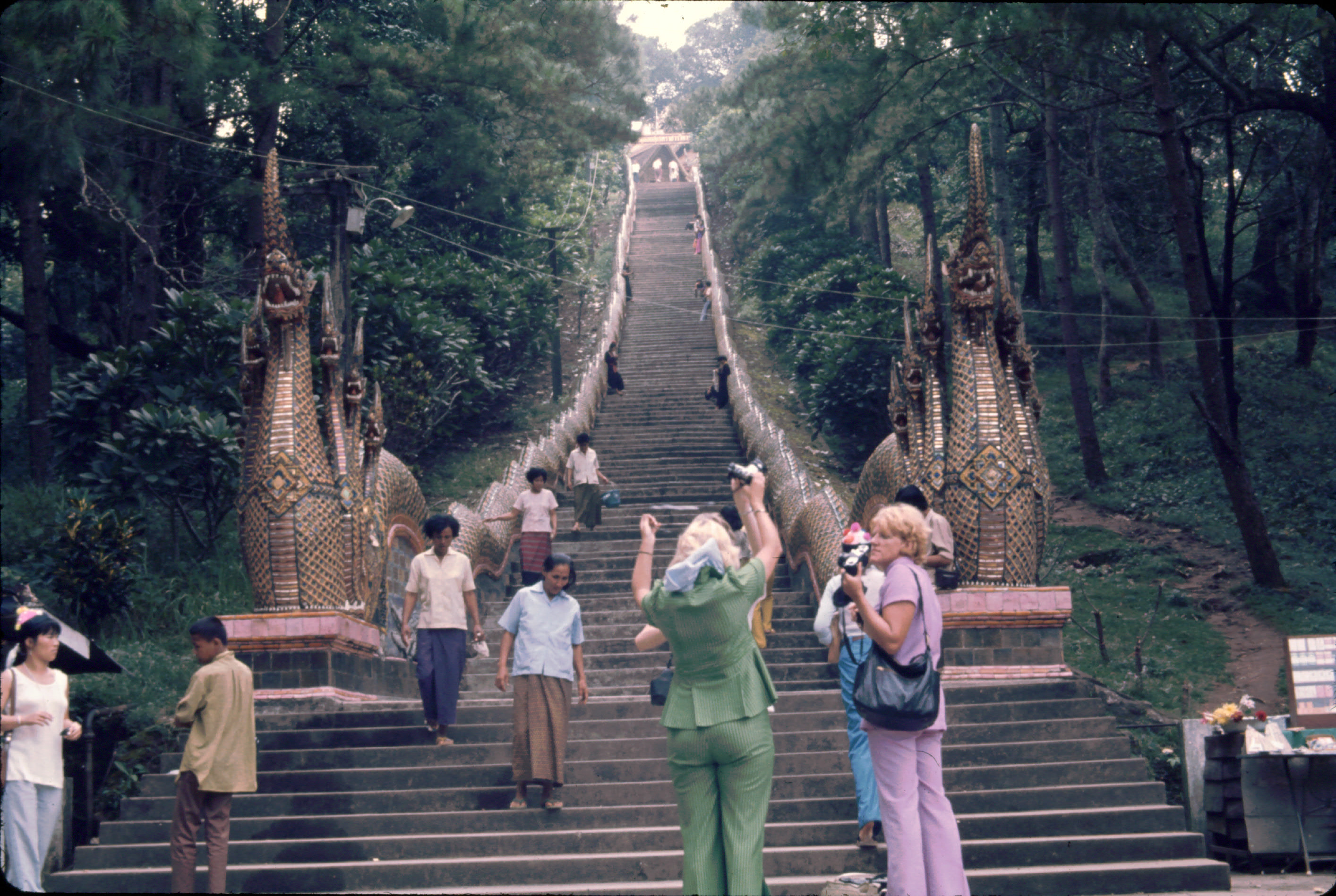 one thousand steps in chiang mai, thailand